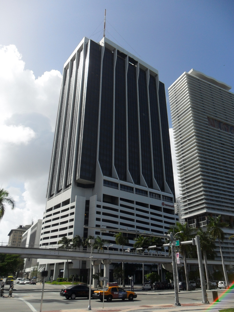 One Biscayne Tower in Downtown Miami viewed from across Biscayne Boulevard/US Route 1